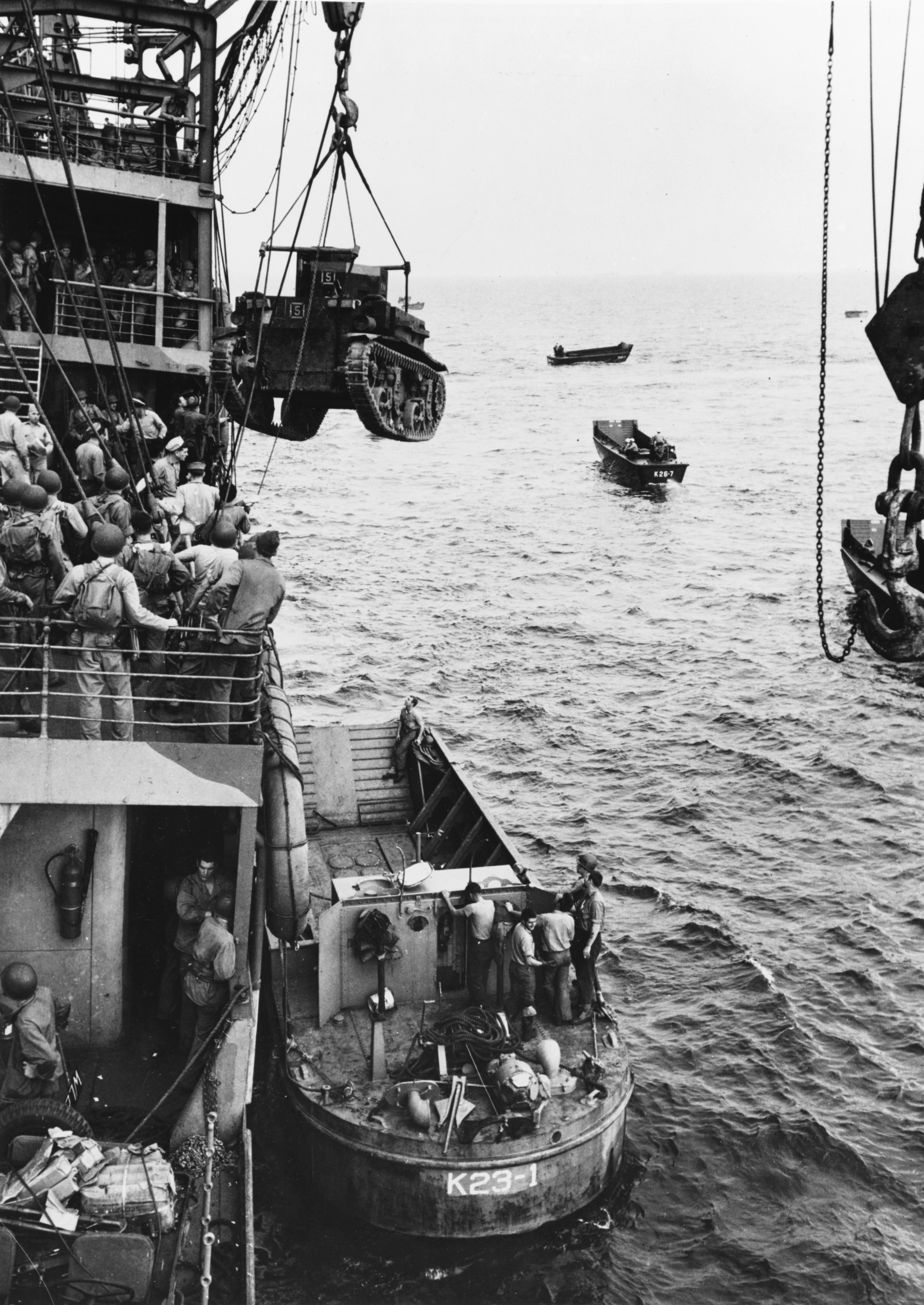 A U.S. Marine Corps M2A4 Stuart light tank is hoisted from the U.S. Navy cargo ship USS Alchiba (AK-23) into a LCM(2) landing craft, off the Guadalcanal invasion beaches on the first day of landings there, 7 August 1942. The other landing craft visible were from USS Alhena (AK-26).